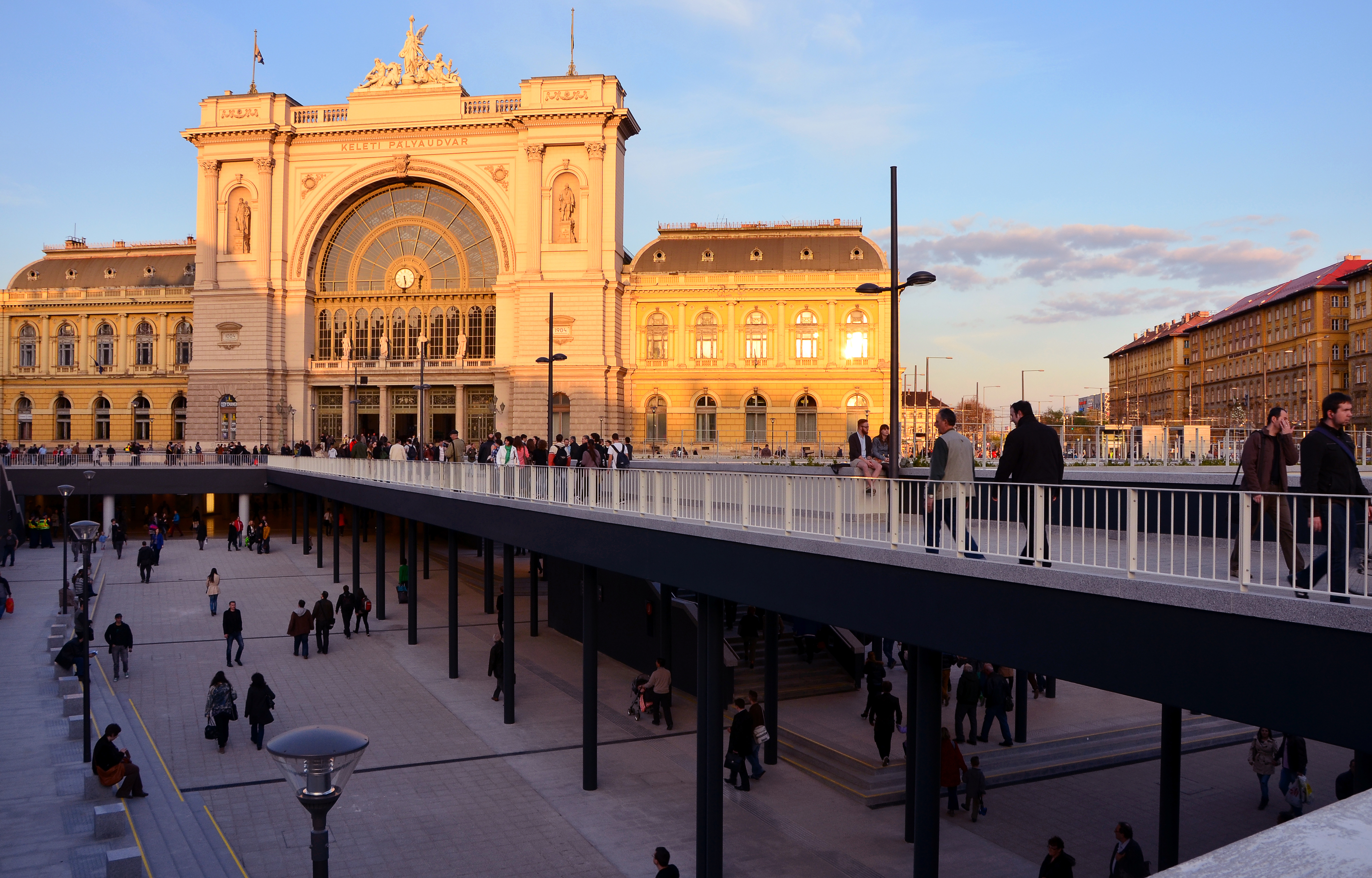 Line 4 (Budapest Metro), Keleti pályaudvar station and the building of Keleti railway station.